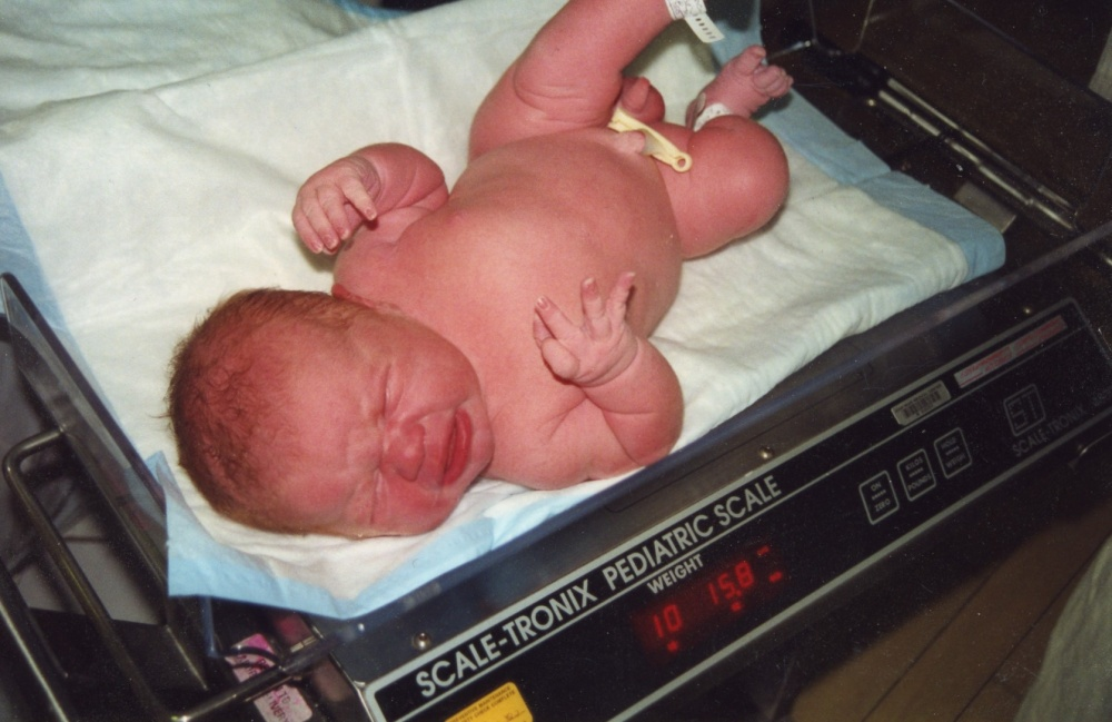 Subject: A newborn baby boy, weighing in at 10 pounds, 15.8 ounces (call it 11 pounds) Date: April, 2001 Place: Walnut Creek, California Photographer: Andwhatsnext Original digital photograph Credit: Photograph (and child) Copyright (c) 2001 by Nancy J Price ;-)